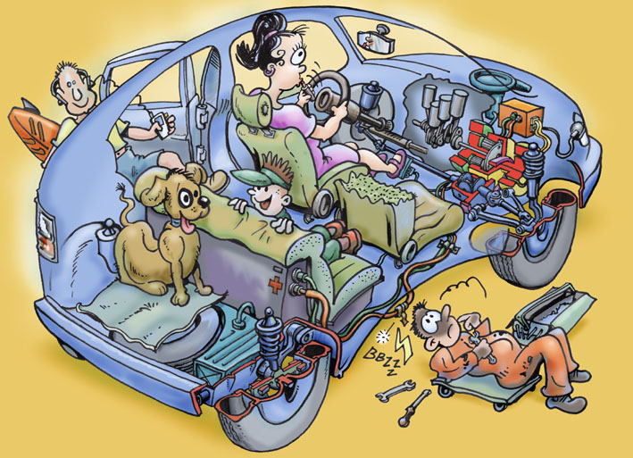 Illustration of a Toyota Prius.